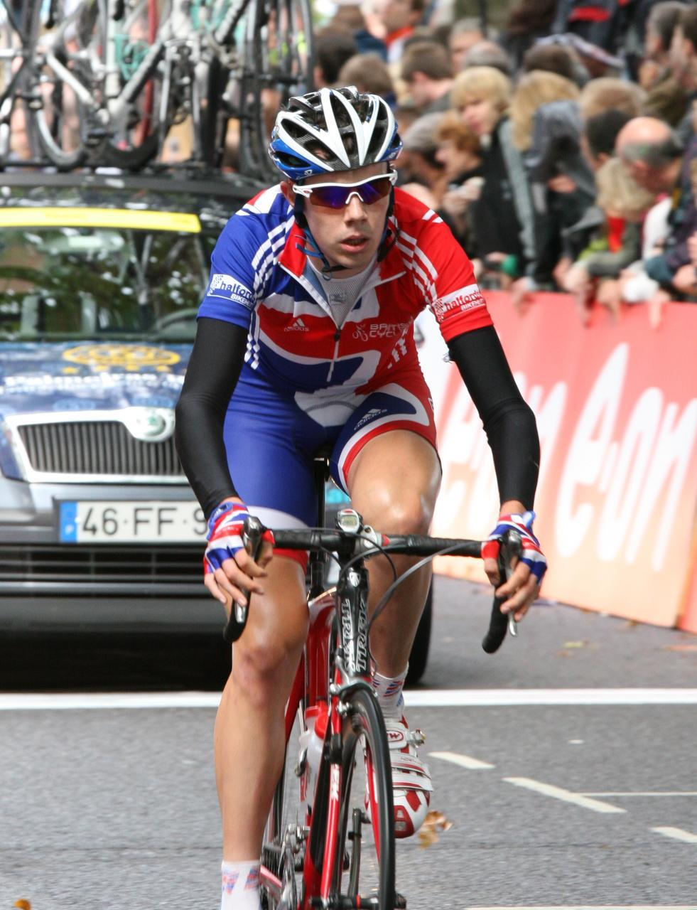 Tour Of Britain 2008, stage 1